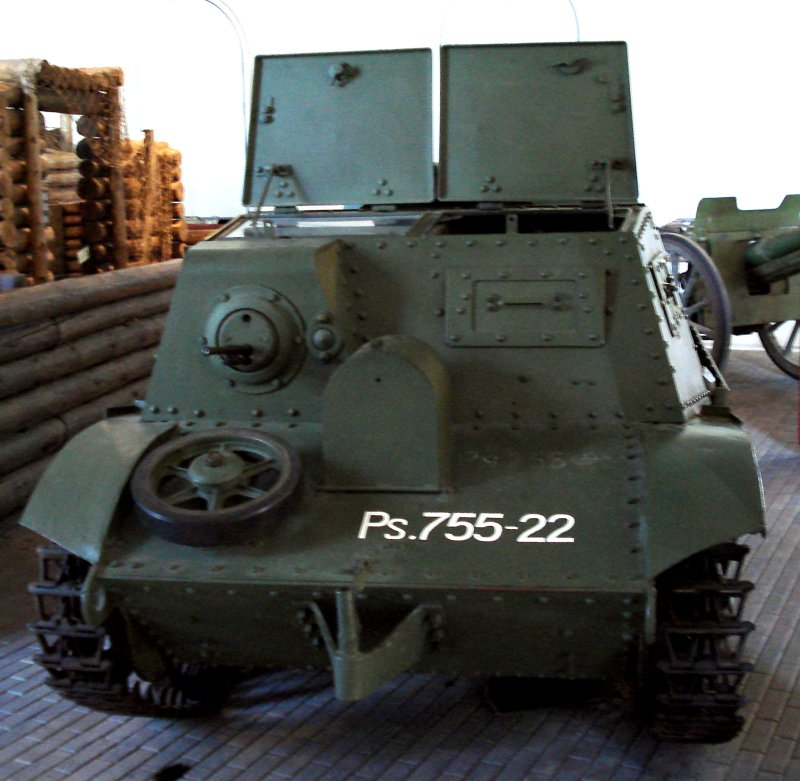 Soviet Komsomolets armored tractor, displayed in Manege Military Museum in Suomenlinna fortress, Helsinki. Photo taken on June 10, 2006. Source: Photo by me, User:Balcer.